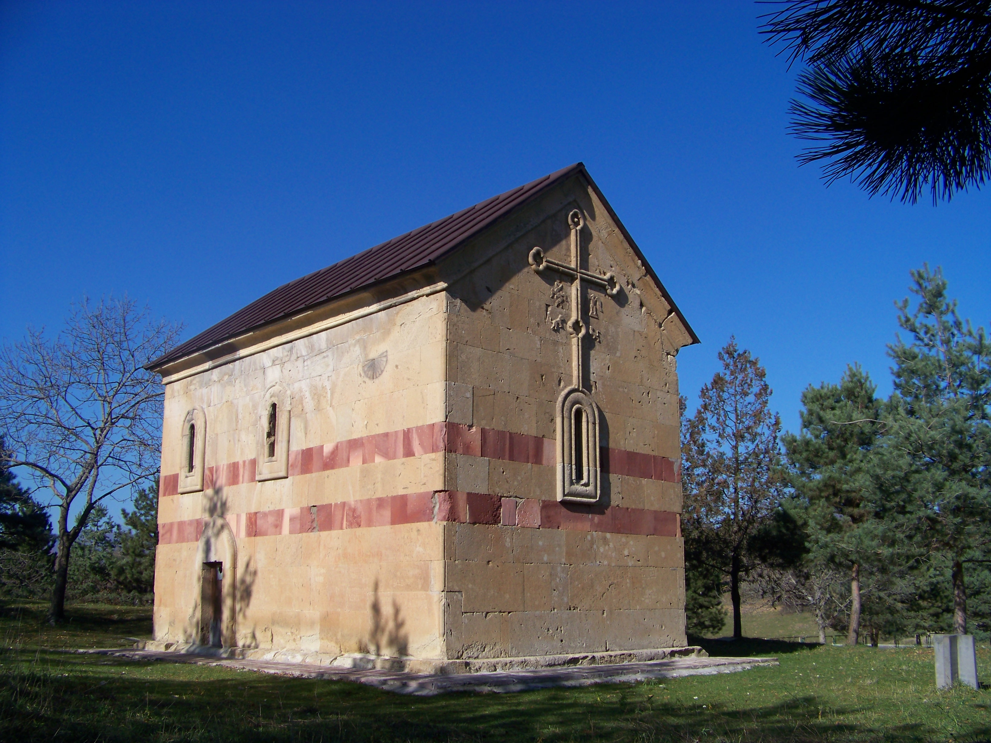 Church of St. Nikoloz of Tandzia